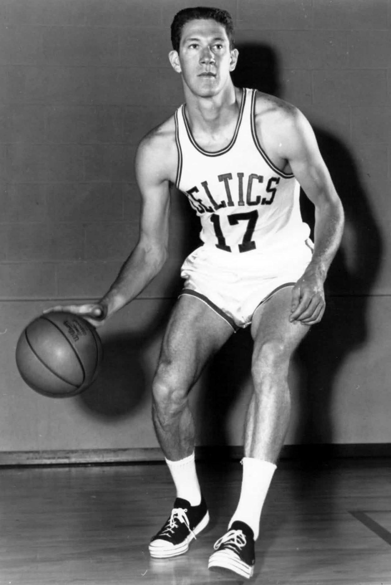 Professional basketball player John Havlicek